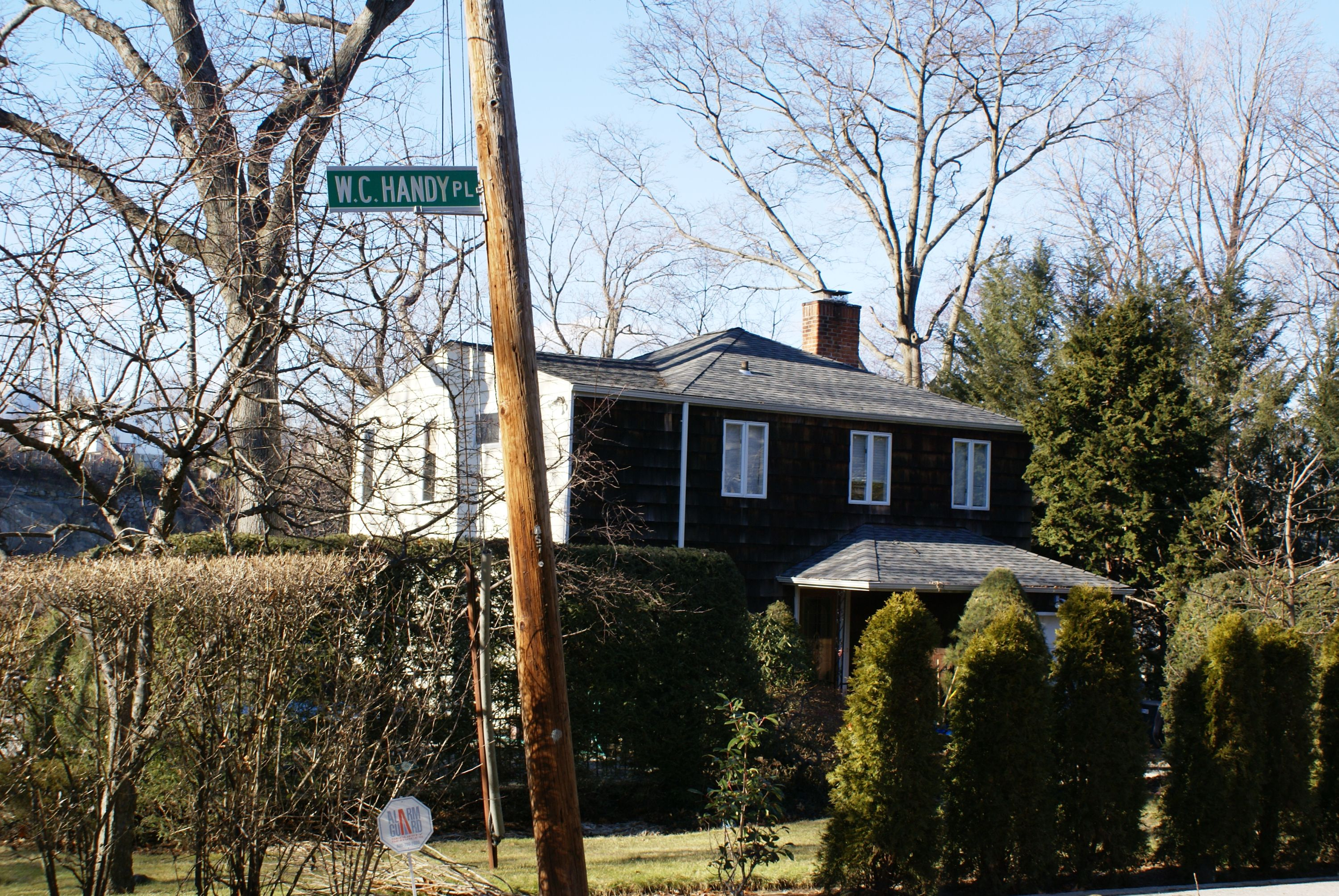 W.C. Handy Place, Yonkers, NY